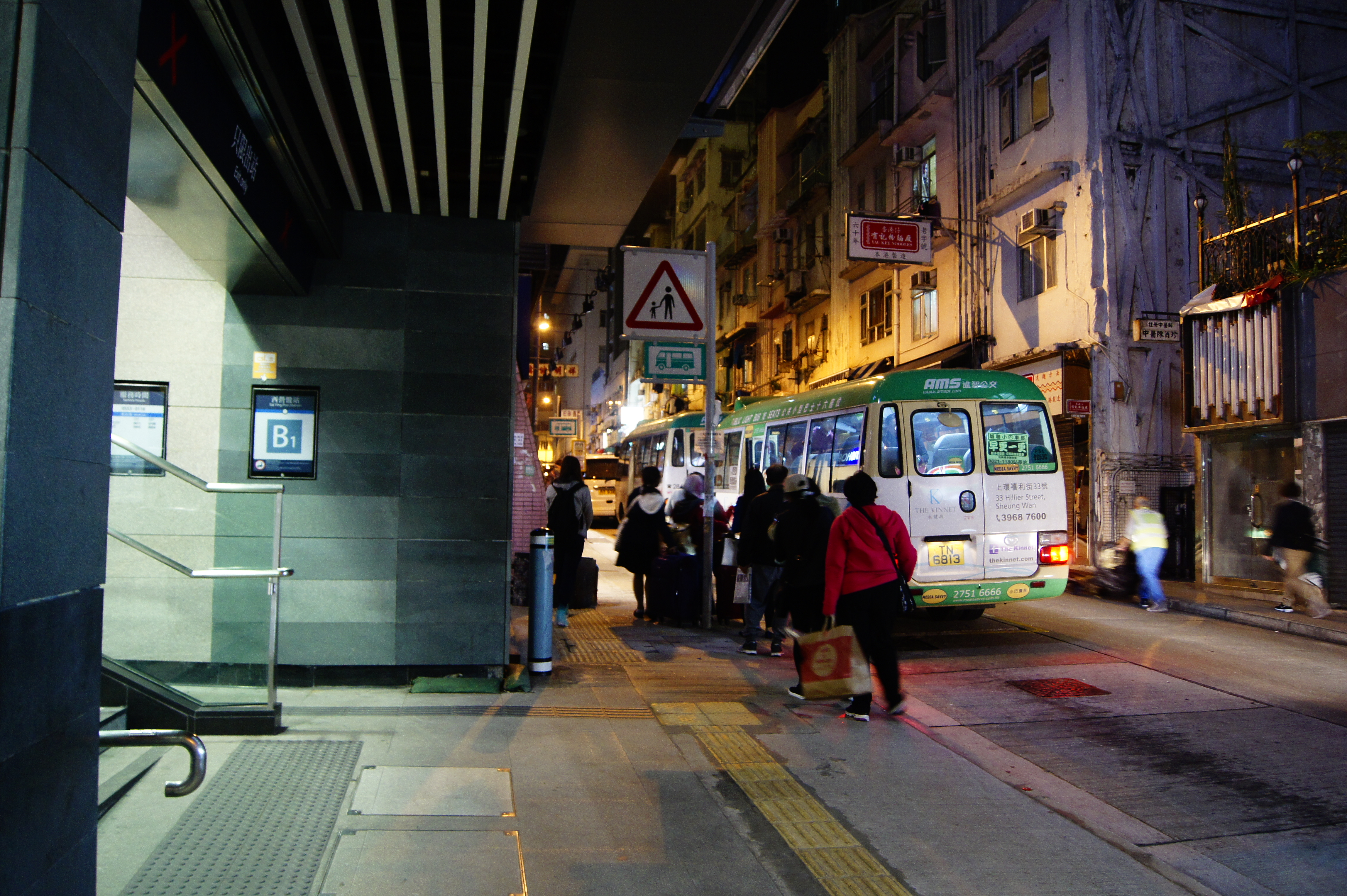 MTR Sai Ying Pun Station Exit B1